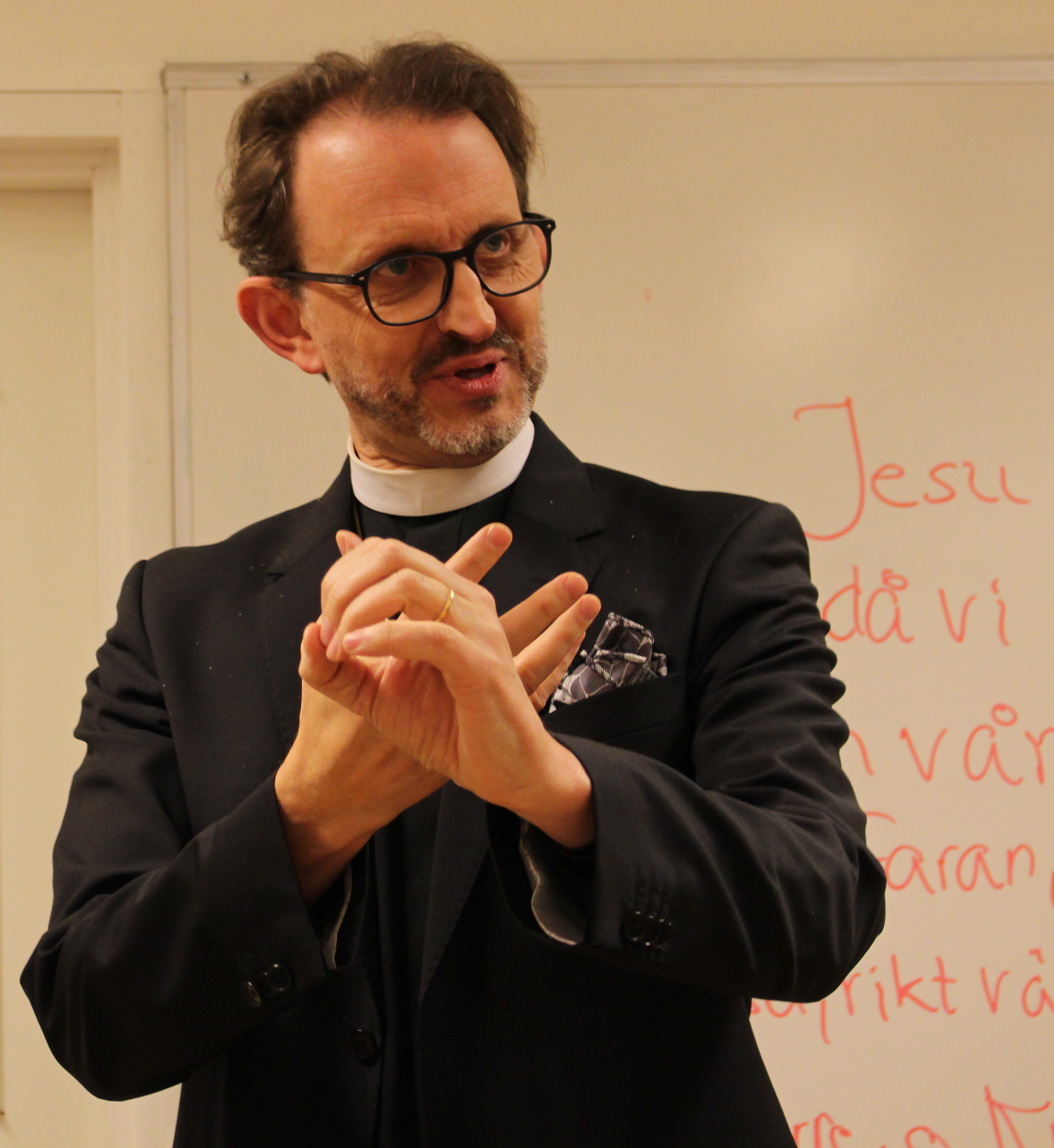 Fredrik Sidenvall